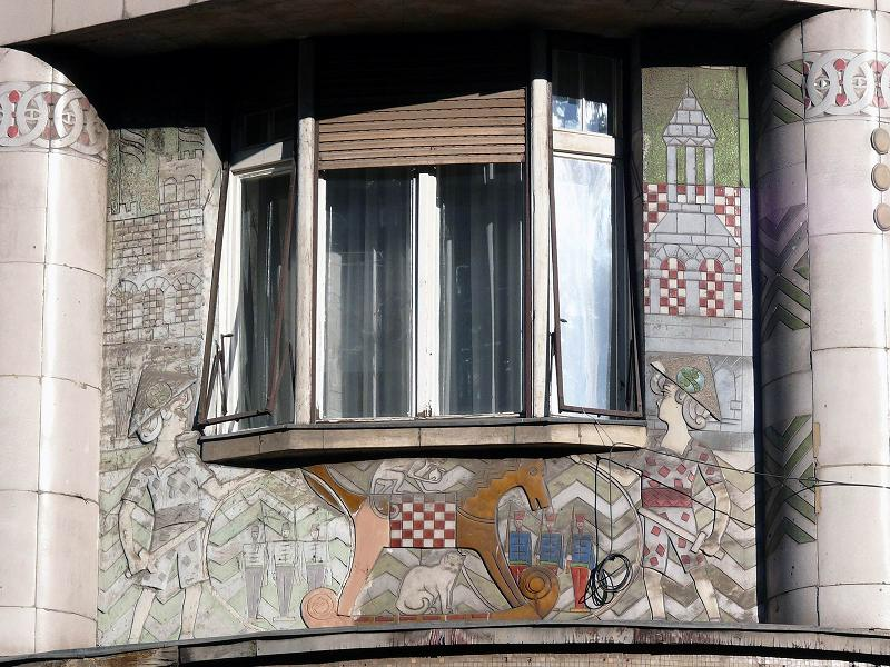 Facade detail of the former Arcade Market in Budapest